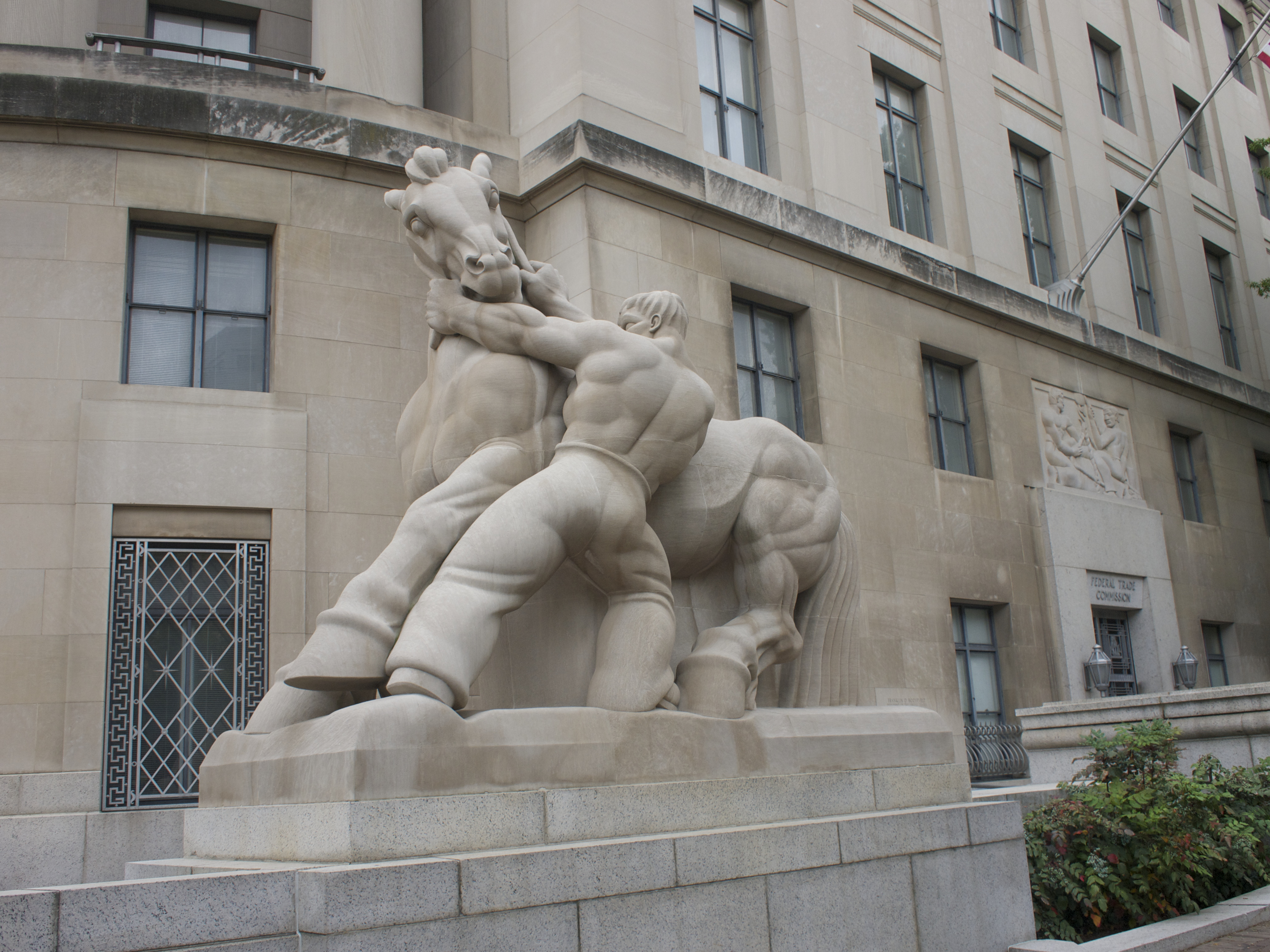 Sculpture “Man Controlling Trade” outside the Federal Trade Commission building in Washington, DC.